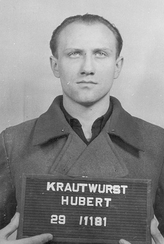 Hubert Krautwurst was SS-Hauptscharführer and work detail leader in the concentration camp of Buchenwald. In the Buchenwald Camp Trial (part of the Dachau Trials) he was sentenced to death by hanging.